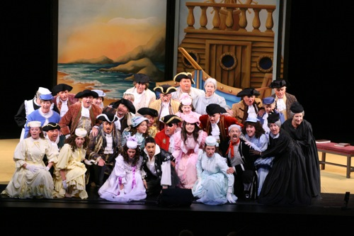 DGSC on stage at the Port Theatre, Nanaimo, Canada performing 'The Pirates of Penzance'